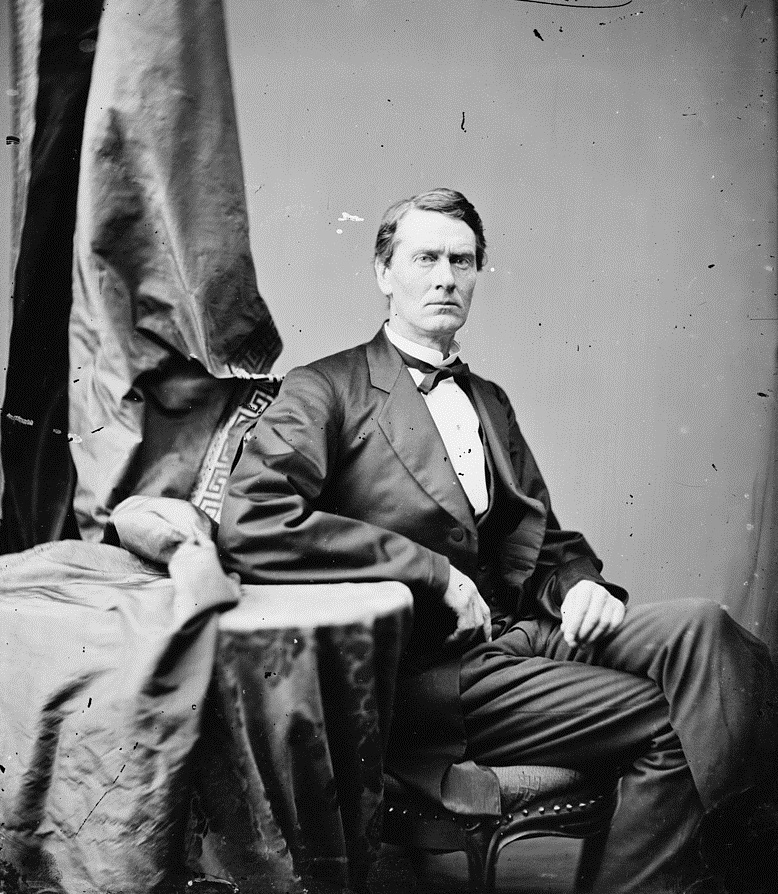 William P. Sprague from Brady Handy Collection.